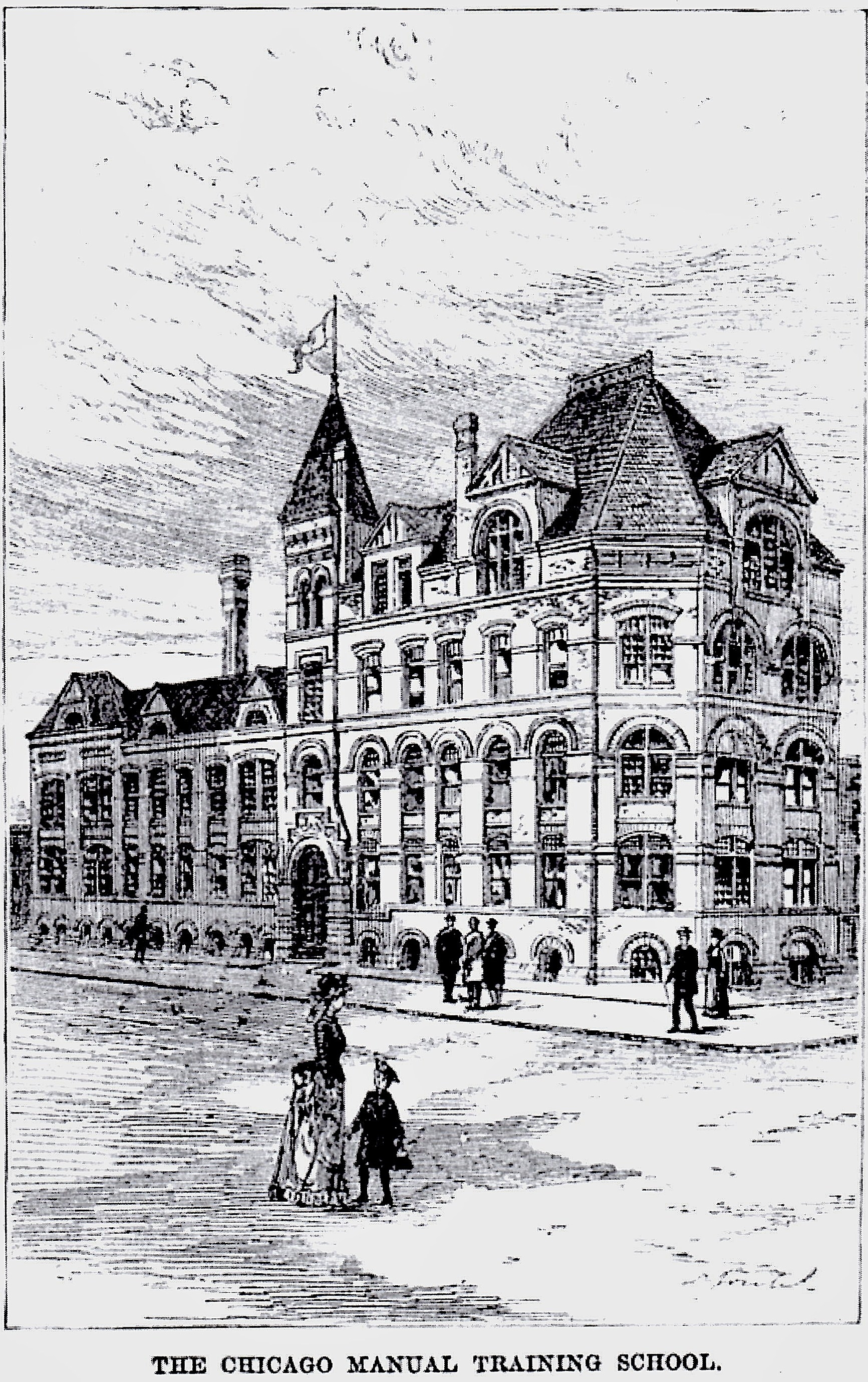 Woodcut of the Chicago Manual Training School, as it appeared as the frontispiece of the book "Manual Training - the Solution of Social and Industrial Problems", by Charles H. Ham, 1886